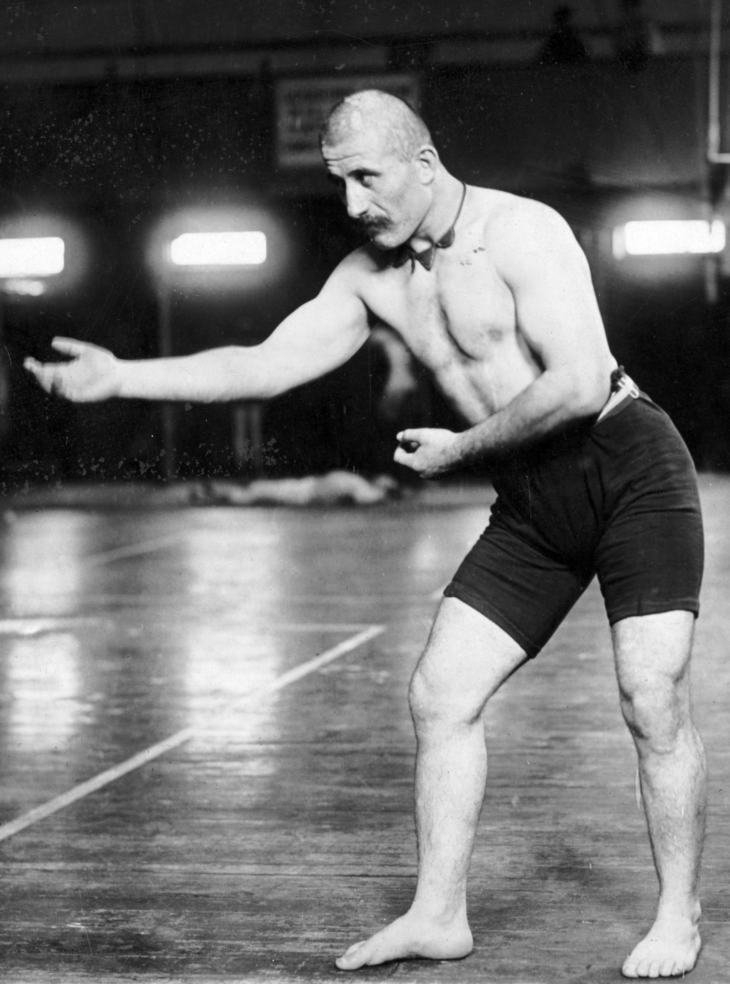 Bulgarian-born Turkish wrestler Kızılcıklı Mahmut a.k.a. Youssouf Mahmout. (Photo erroneously attributed to Hergeleci İbrahim by the original uploader.)